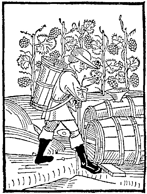 Vintage XVe